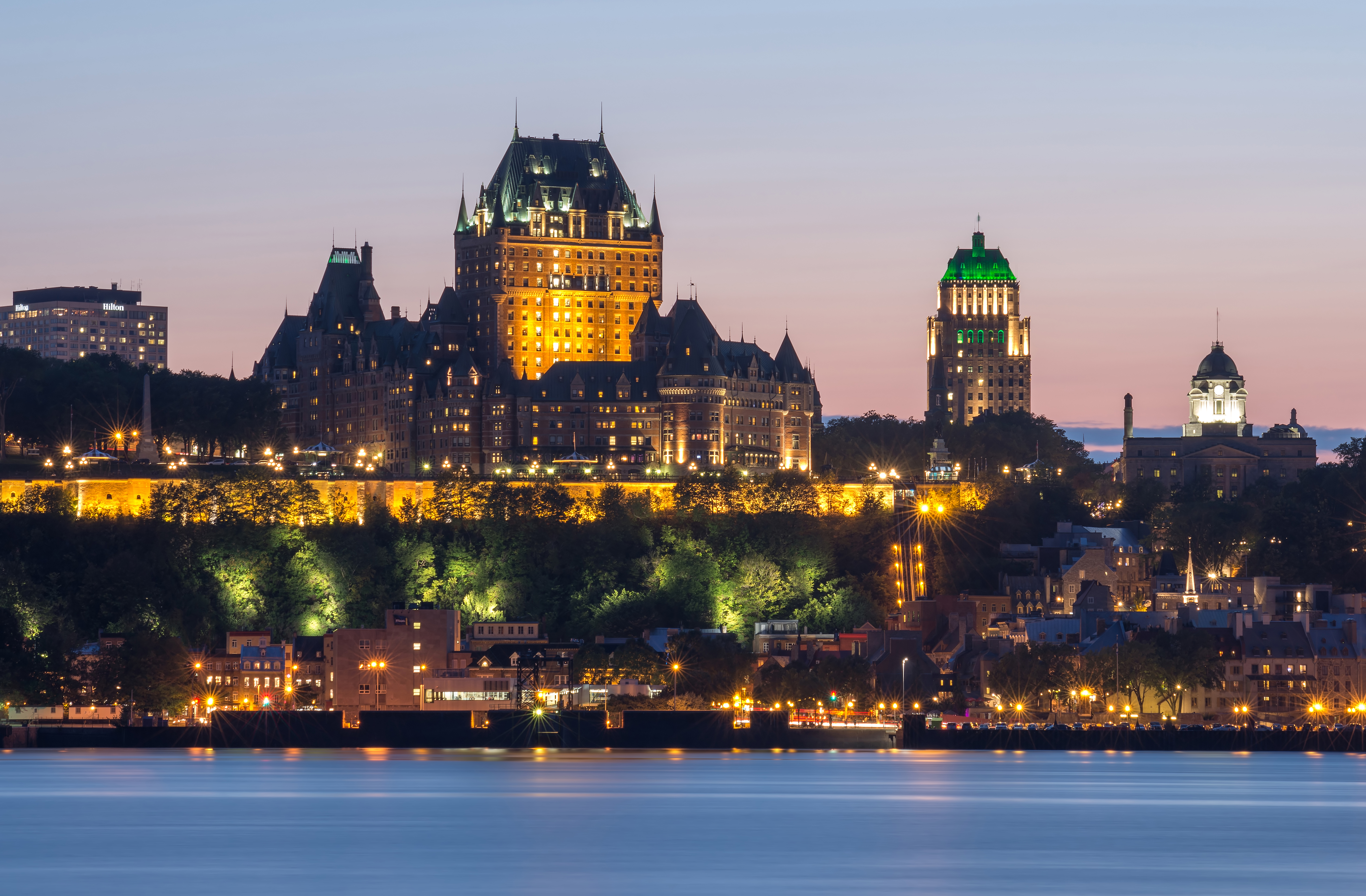 Québec city at night, view from Lévis city